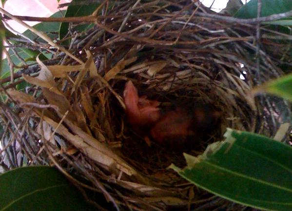 Northern Cardinal Offspring (Cardinalis cardinalis)